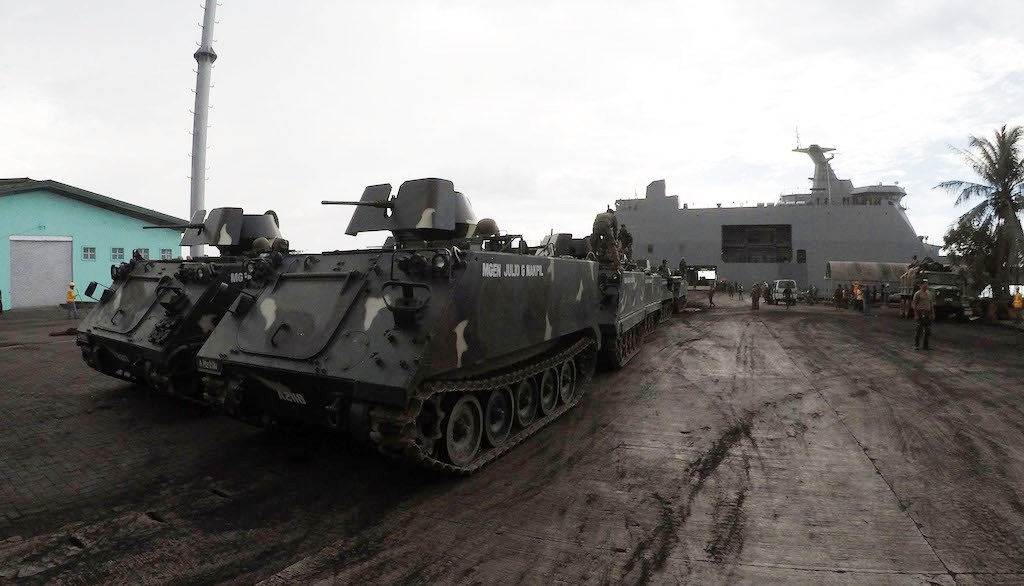 Philippine Navy offloads on May 31 in Iligan City port military vehicles and other supplies for distribution to the different AFP units in Mindanao to cater to the transport and logistical requirements for the ongoing military operations against the terrorists. Dispatched BRP Tarlac (LD-601), first strategic sealift vessel of the navy, sailed from Subic Bay, Zambales last May 29. (ZRD/AD/PIA10)